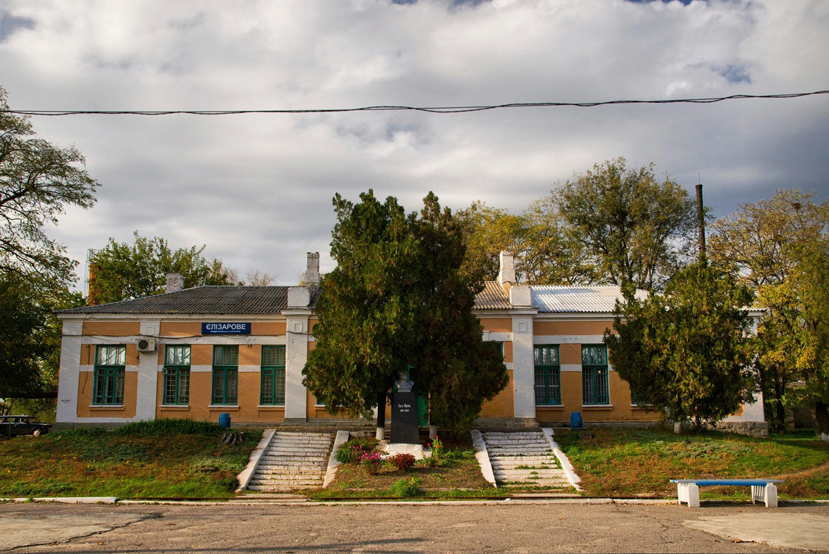 Elizarova railway station